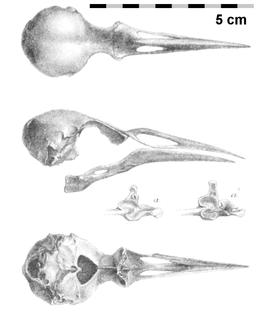 Necropsar rodericanus skull (top/side/underside); possibly female (specimen "C" of Günther & Newton 1879) a: articular facet of the mandible, magnification 2x (a': pathological?)